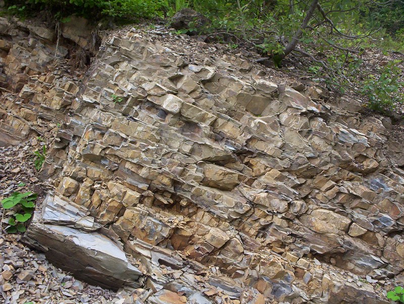 Carpathian flysch in Osława valley between Duszatyn and Prełuki, Bieszczady, Poland.